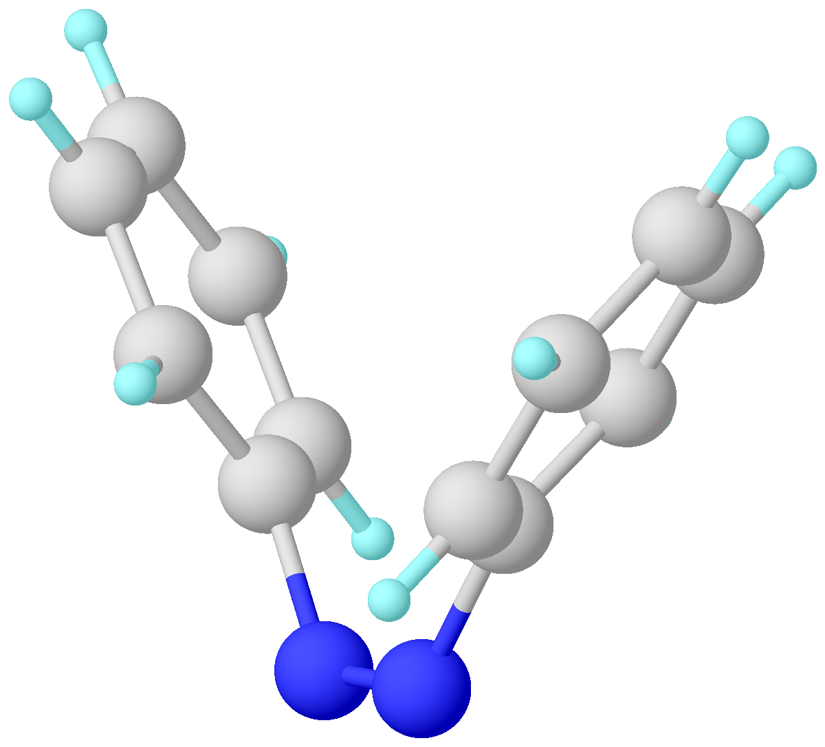 Structure of cis-Ph2N2 from Xray coordinates.